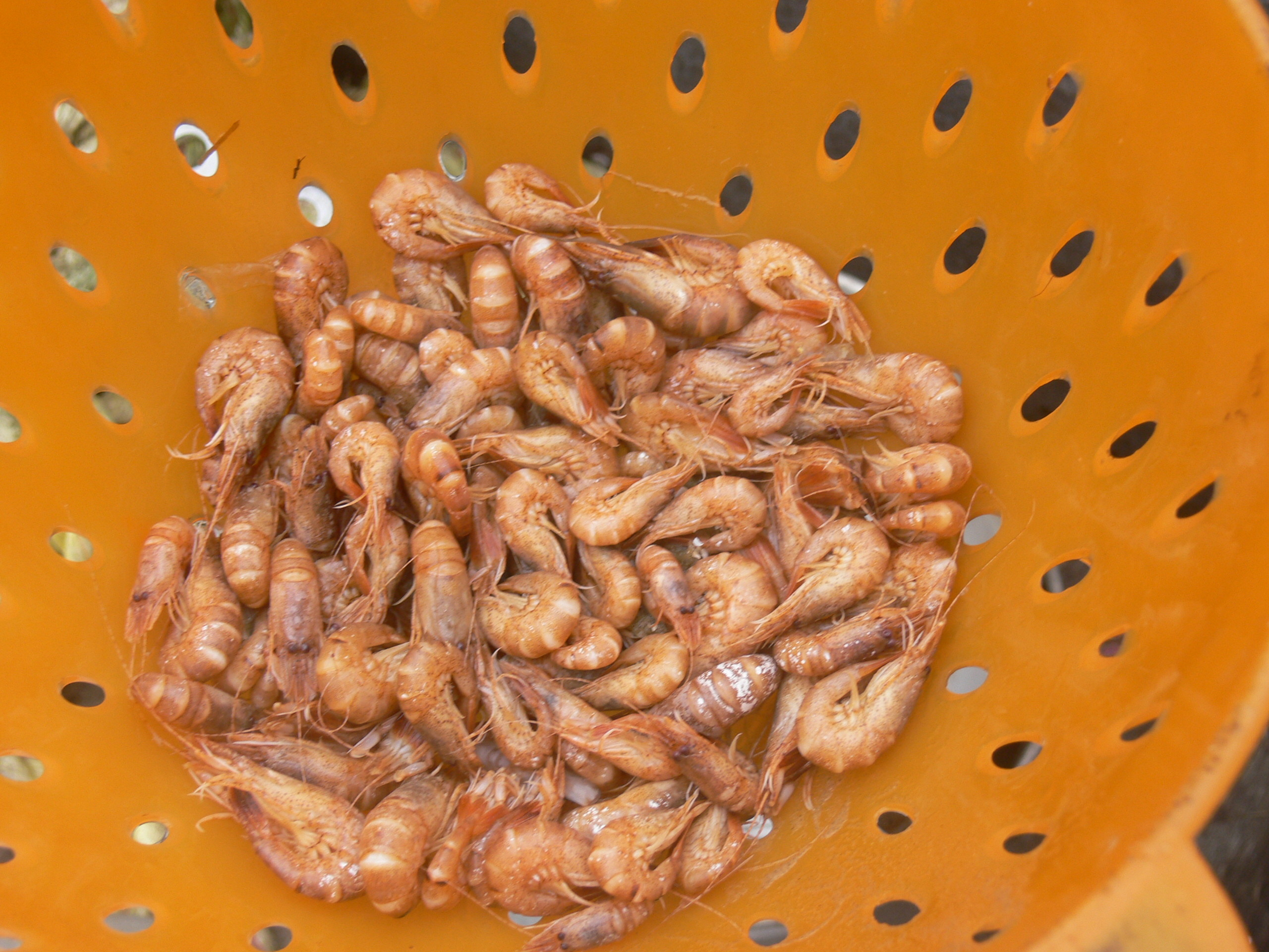 Rømø (Denmark) – Fresh boiled brown shrimps at Lakolk beach.